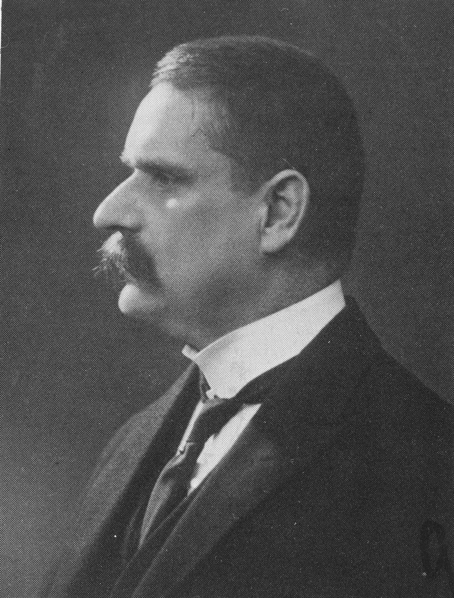 Otto Hjalmar Granfelt, Professor and Attorney General of Finland.